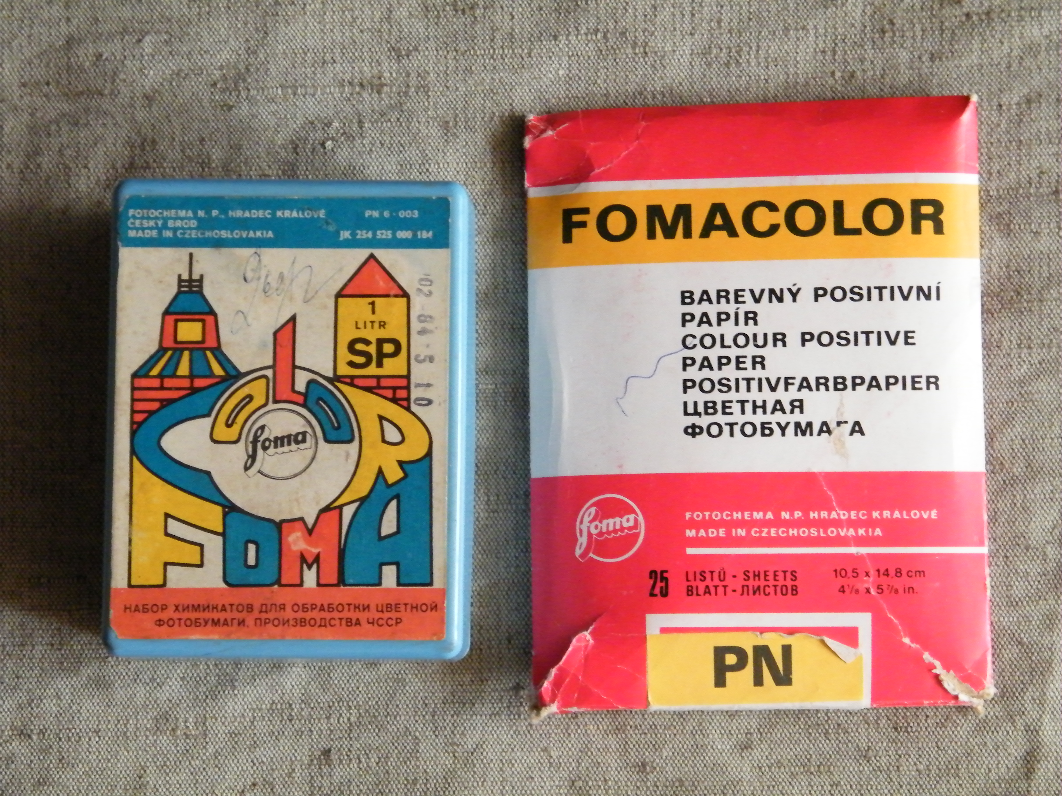 Фотобумага Фомаколор PN и набор химикатов